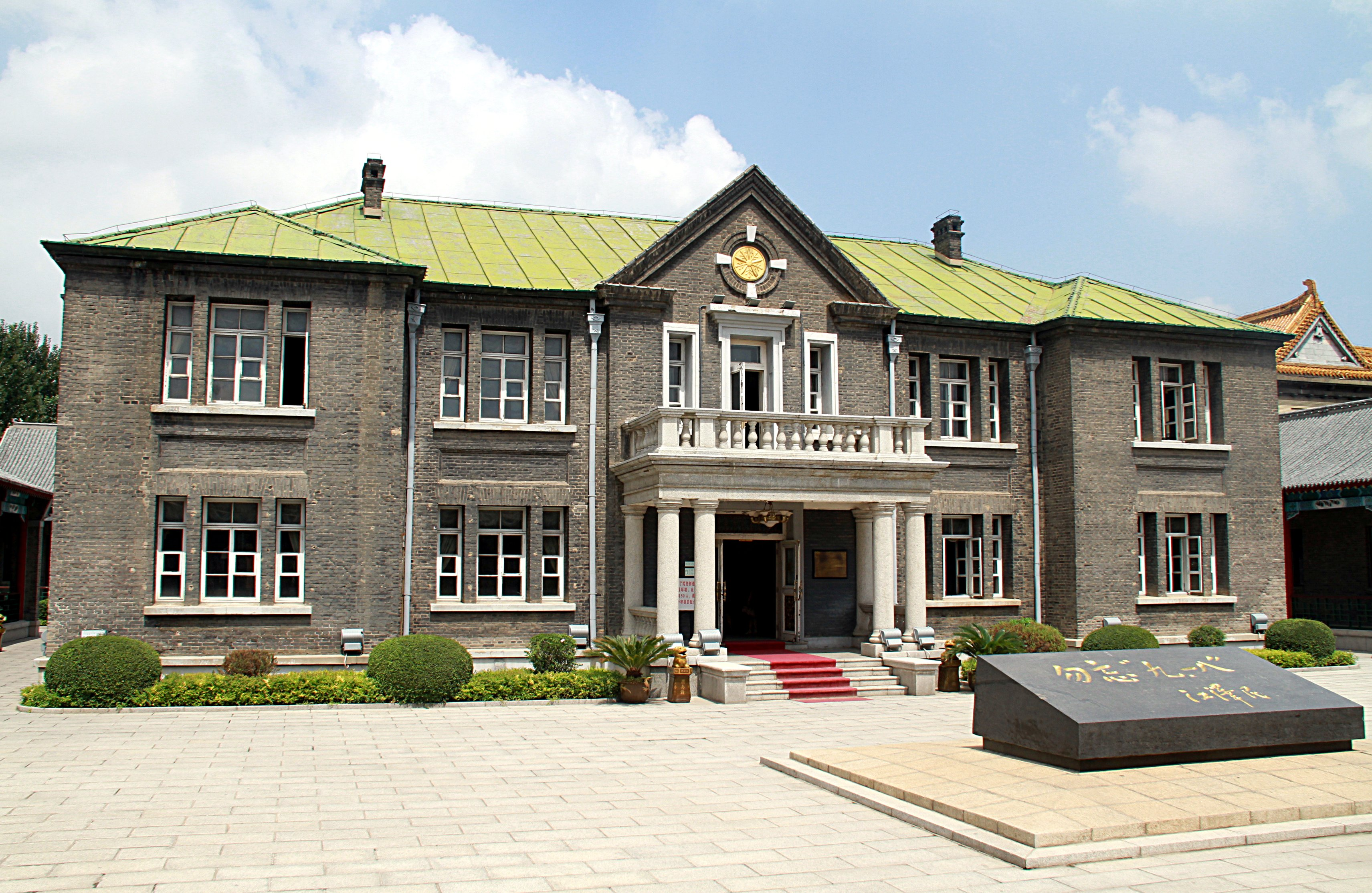 Photograph of the Jixi Building in the Museum of the Imperial Palace of the Manchu State, Changchun, Jilin province, northeast China.